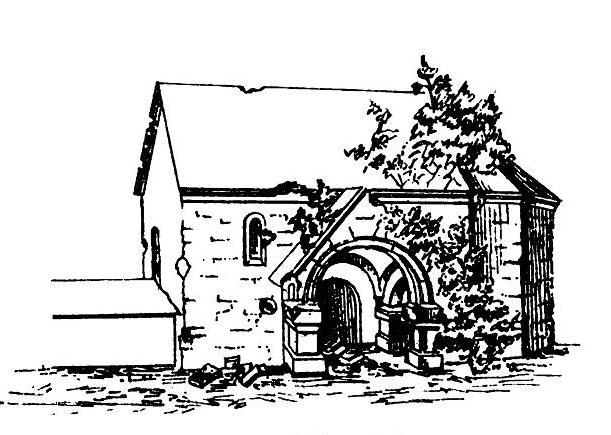 Medieval Georgian church at Skhalta, Adjara as illustrated in the book by Dimitri Bakradze, 1878. The drawing was made by Colonel Giorgi Kazbegi during his reconnaissance journey to Ottoman Georgia in 1873.